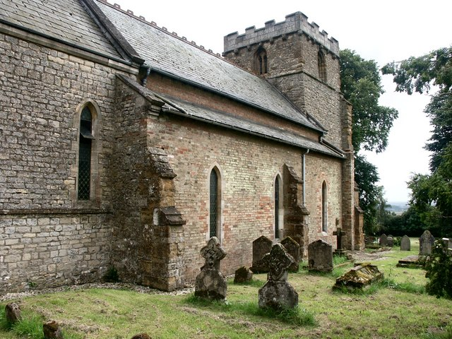 All Saints, Bigby The mediaeval church has plenty of monuments and brasses to see.